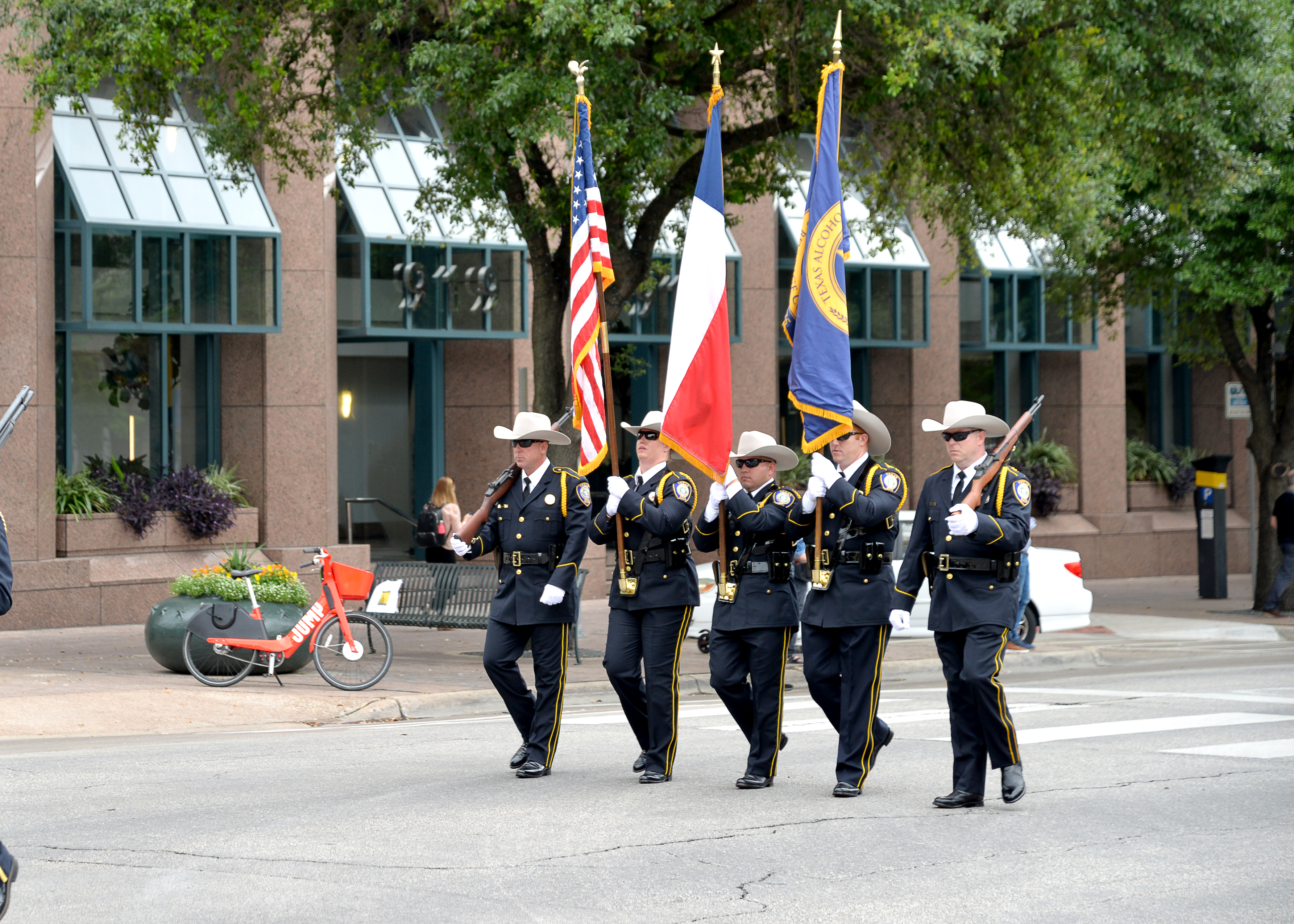 The Texas Alcoholic Beverage Commission honor guard participates in a 2019 peace officers memorial service near the Texas Capitol in Austin.